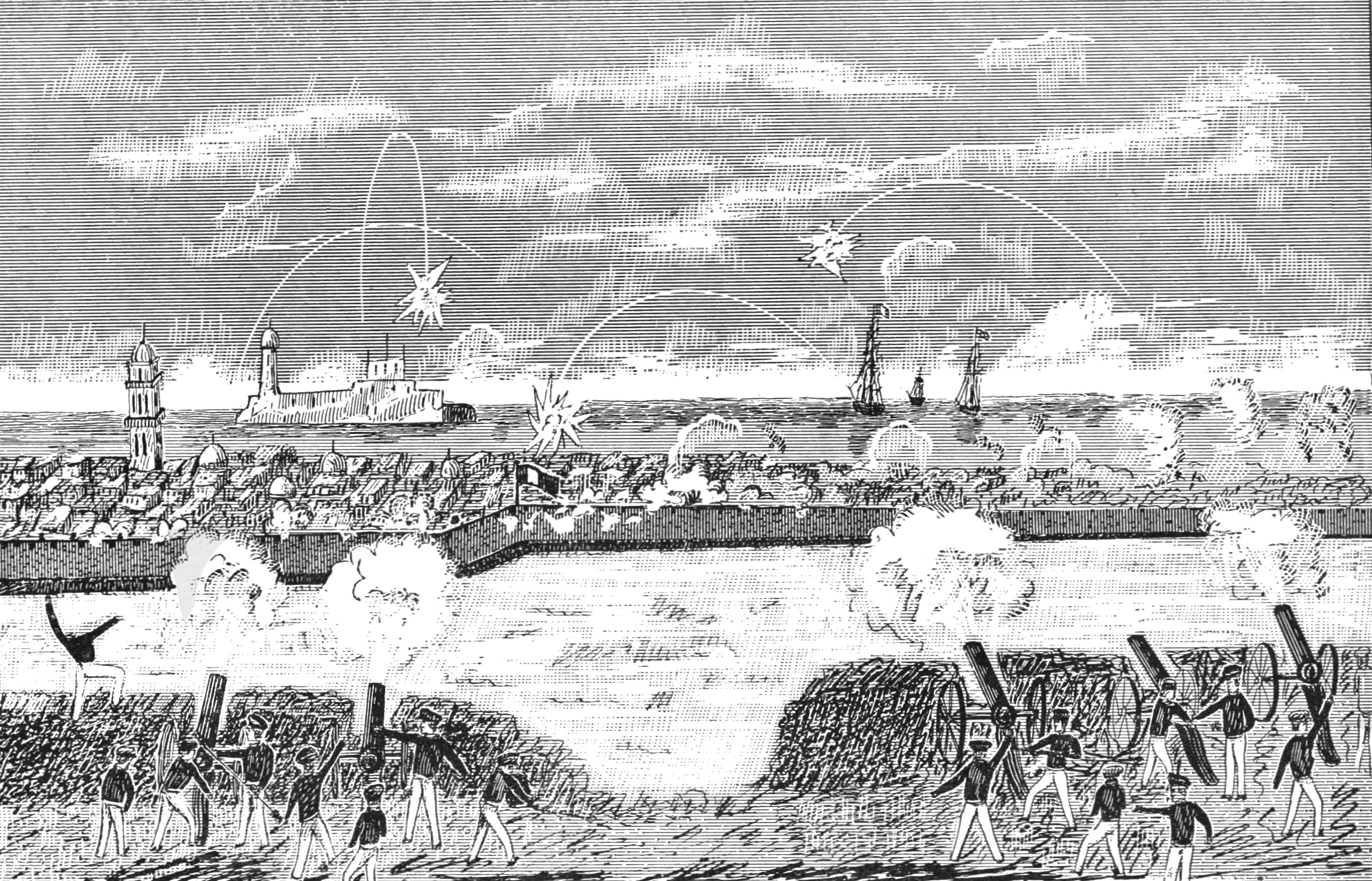 Bombardment of Vera Cruz March 24, 1847